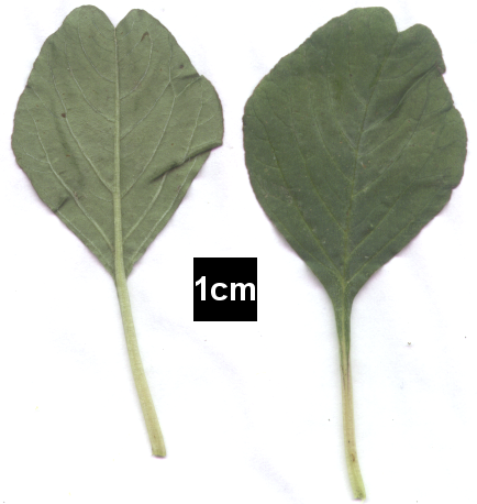 Both sides of the leaves of Amaranthus graecizans